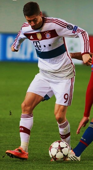 Robert Lewandowski